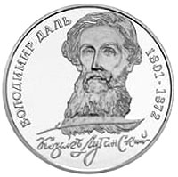 Coin of Ukraine